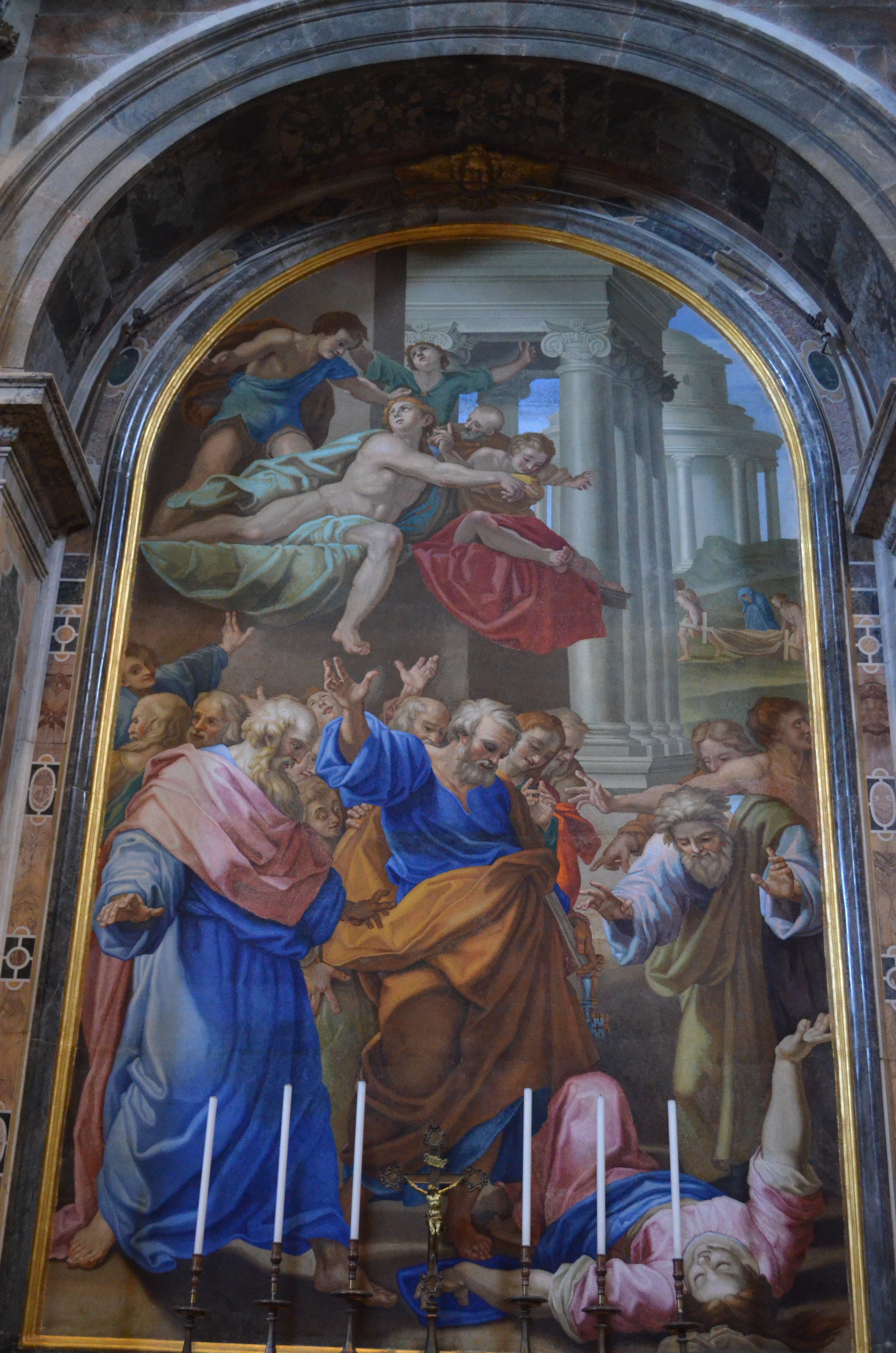 Saint Peter's Basilica